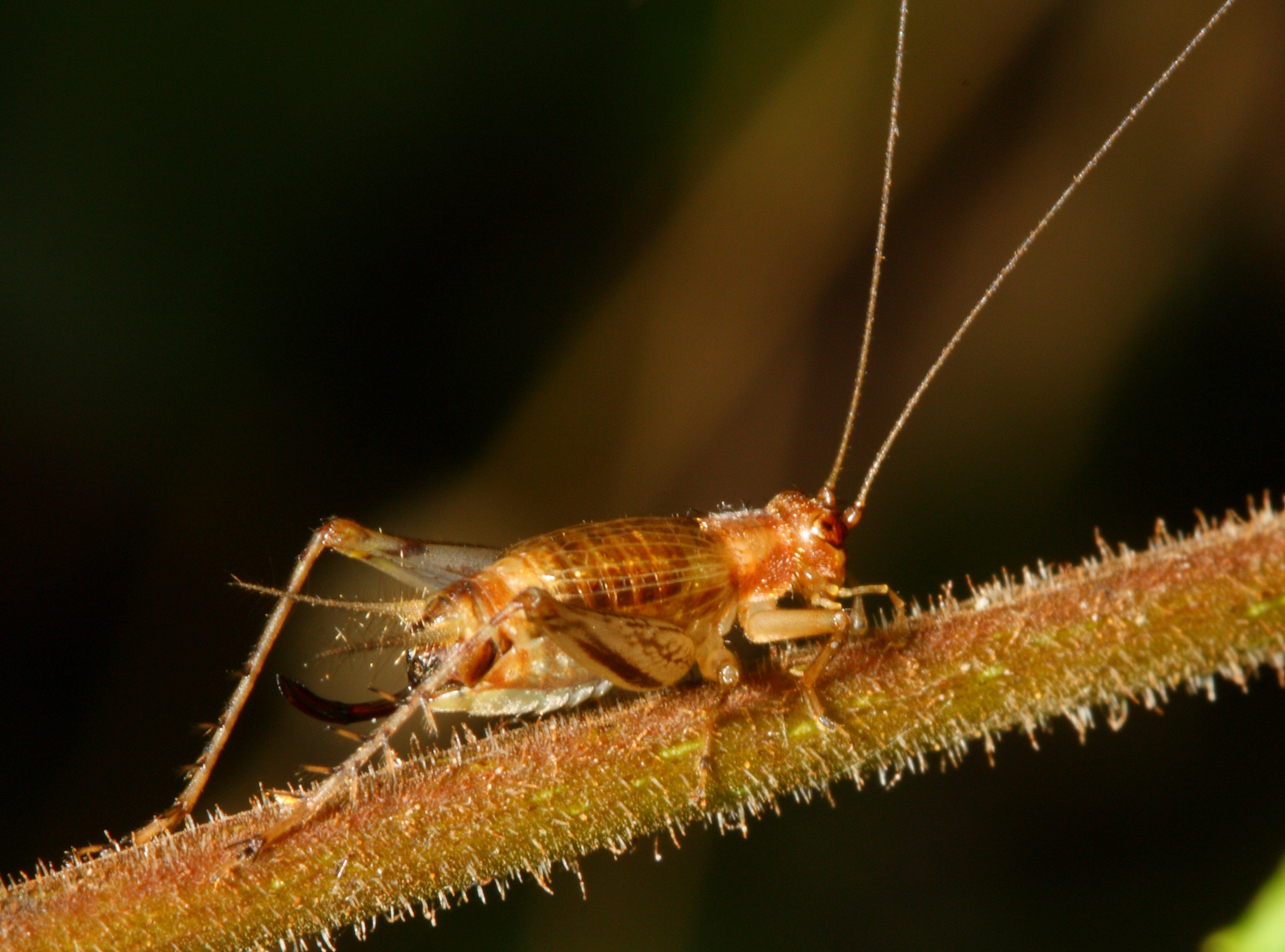 Female Anaxipha exigua, commonly called Say's Trig.